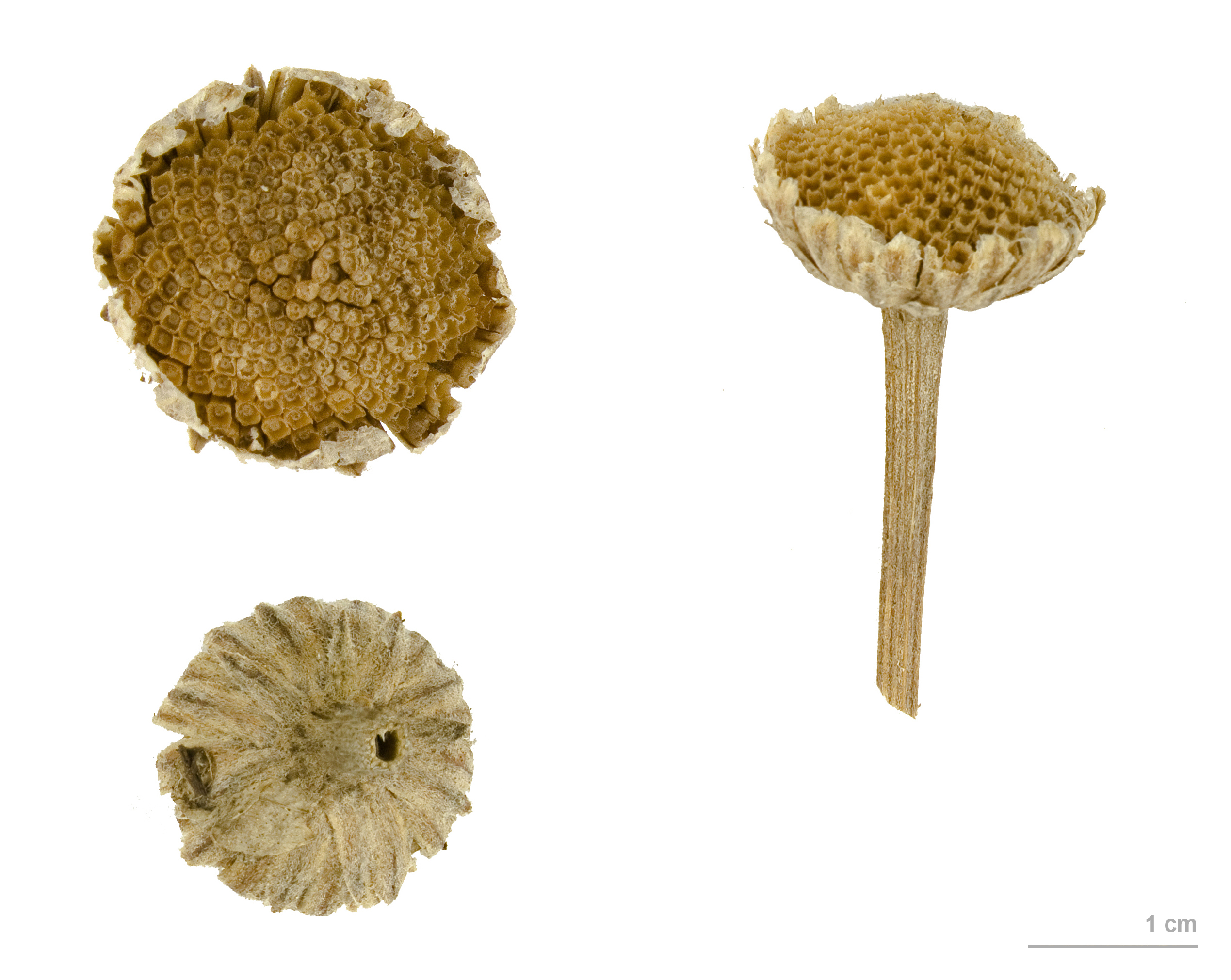 Dalmatian Pyrethrum, fruits and seeds